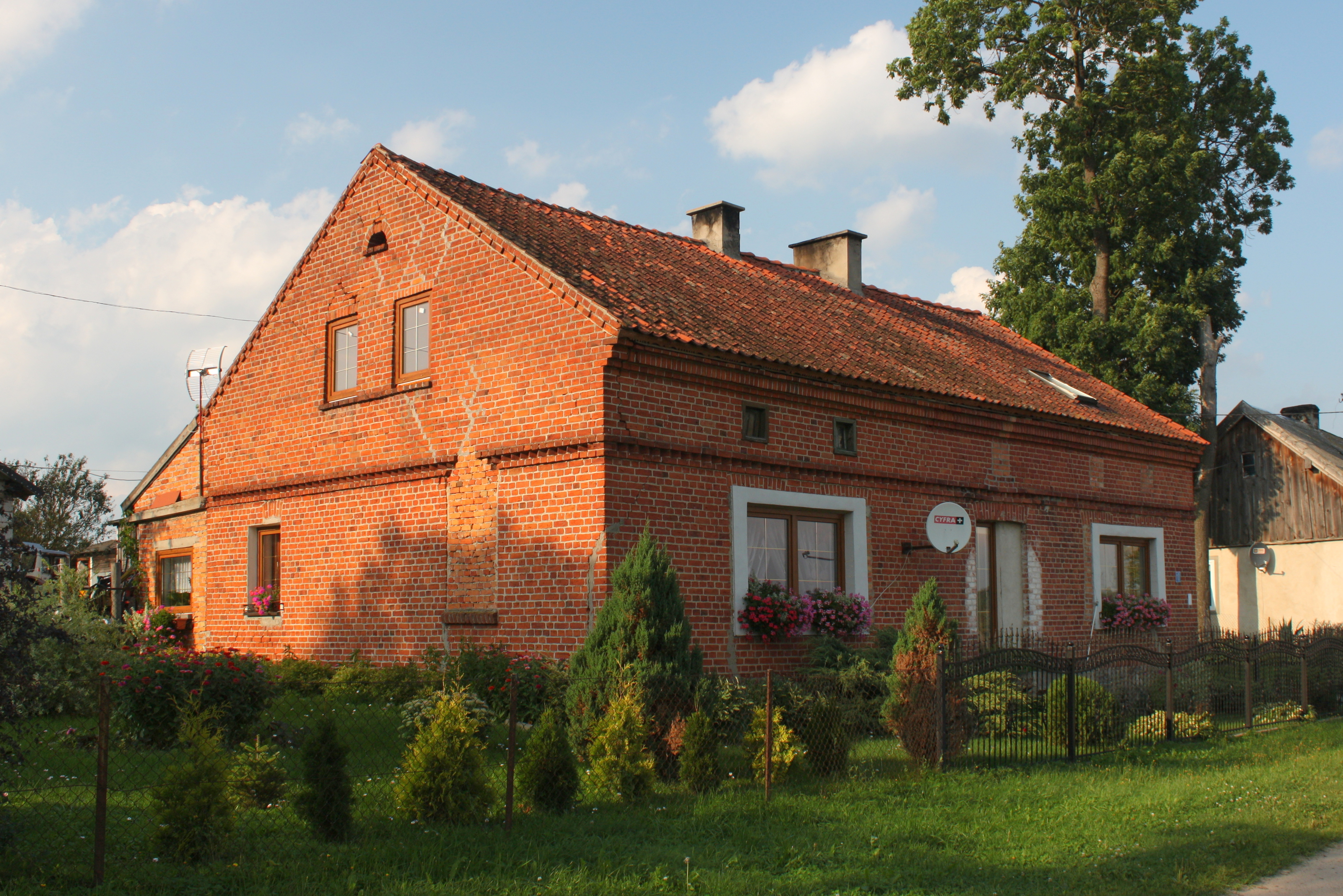 Building in Gant.